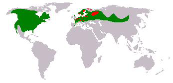 The distribution of the European Beaver worldwide.